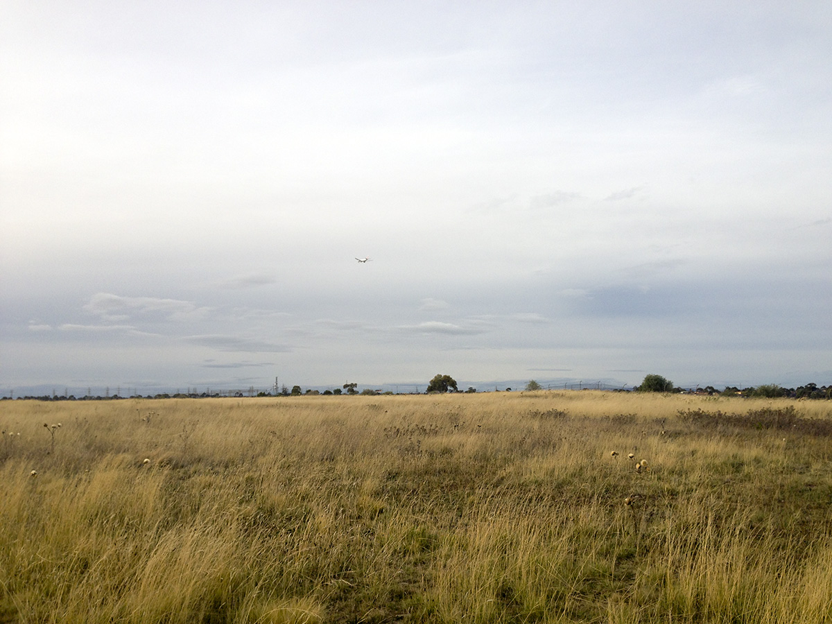 Native grassland, Solomon Heights, VIC.jpg.jpg